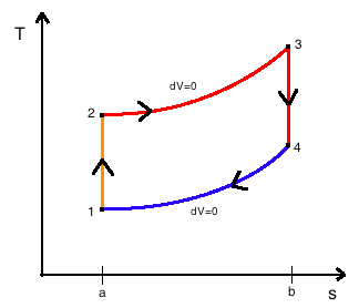 T-s diagram of Otto cycle